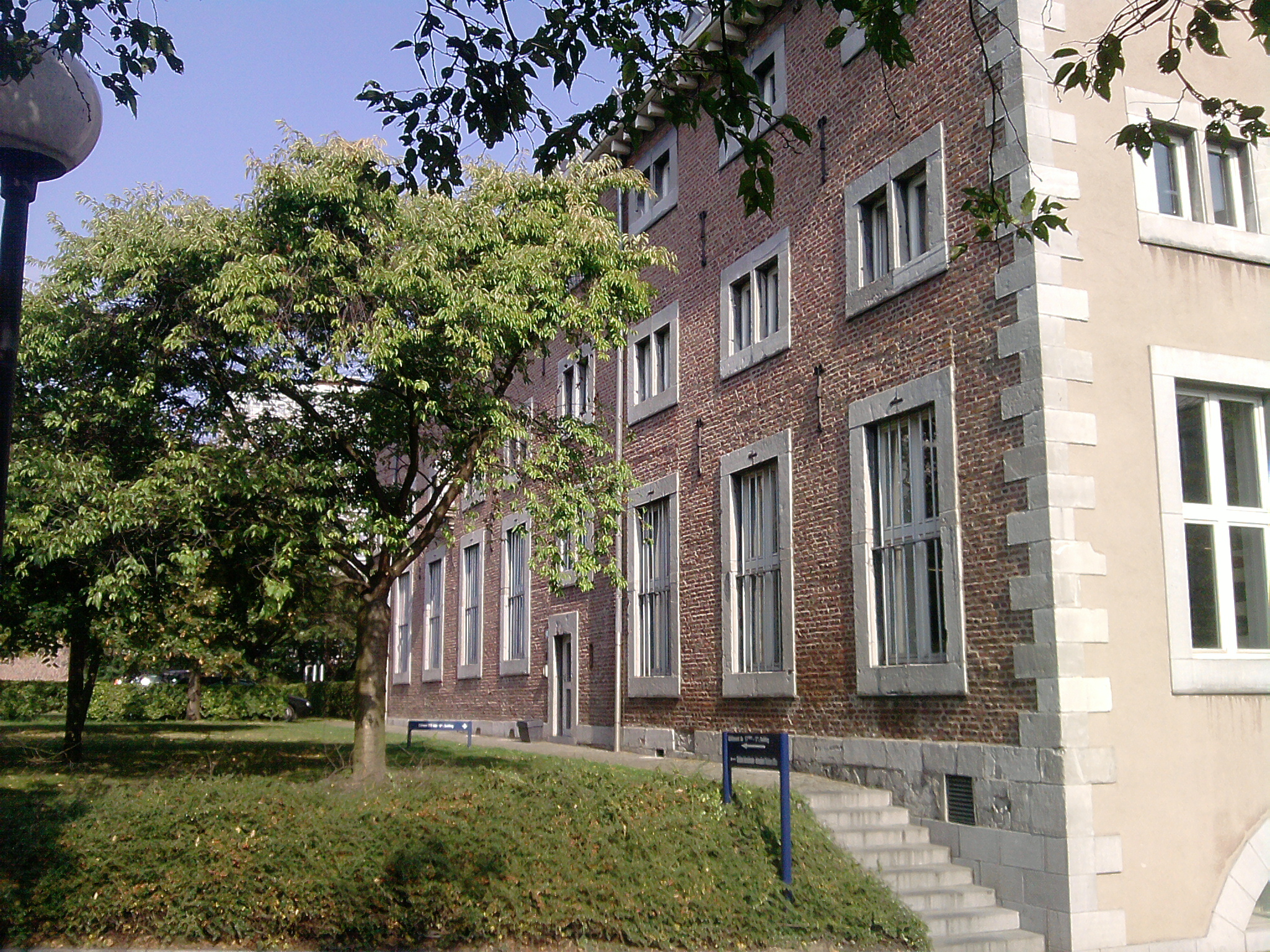 HEC Liege Management School ( Belgium)